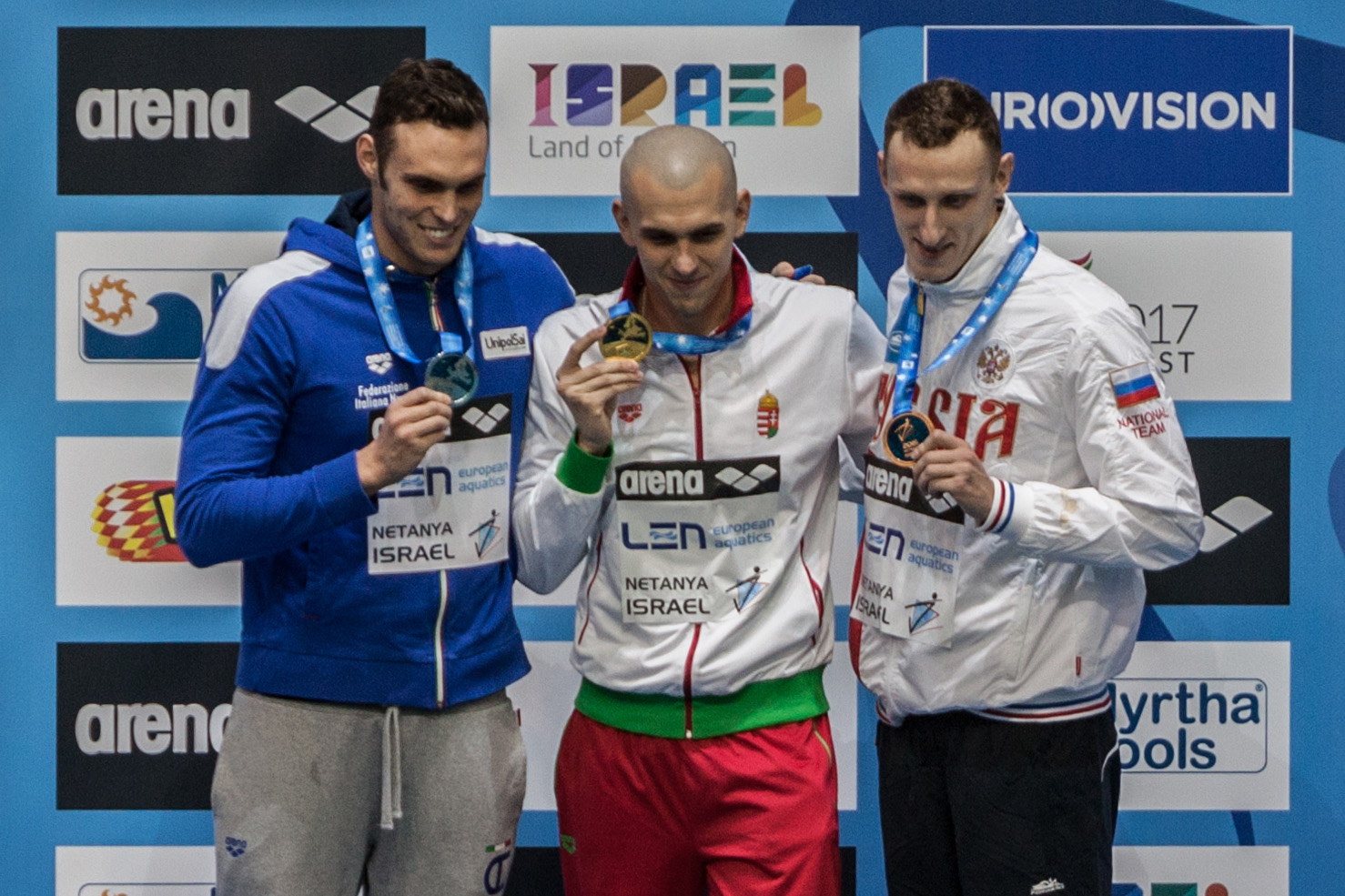 Winners of the 100m butterfly at the 2015 European Short Course Swimming Championships: (L-R) Matteo Rivolta, Lazlo Cseh and Nikita Konovalov